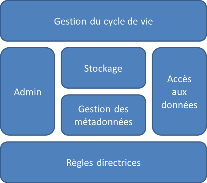 MDM solution modules